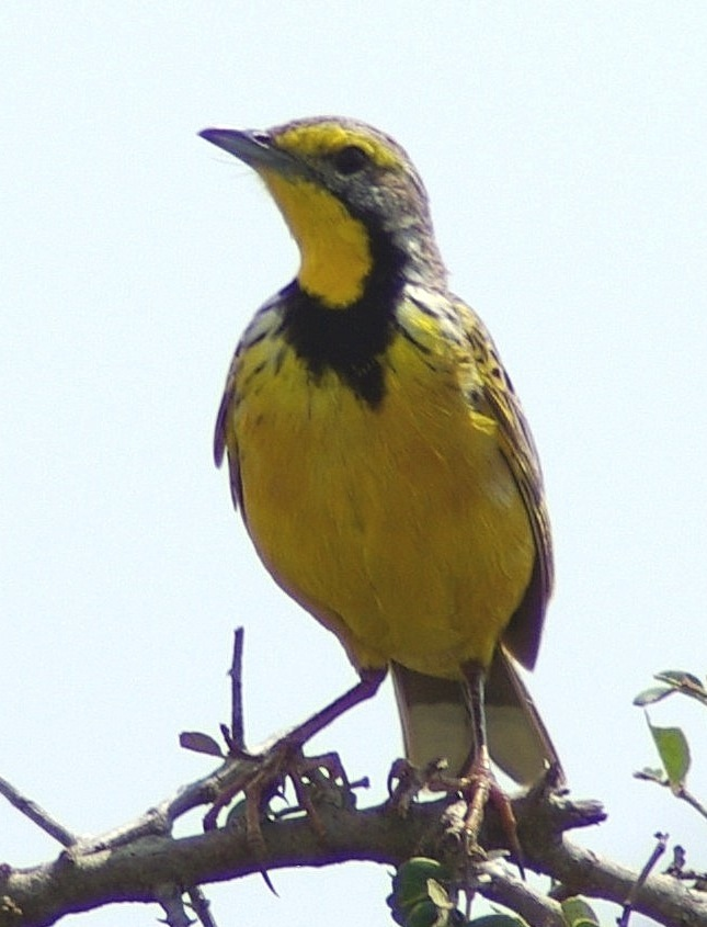 Yellow-throated Longclaw, Macronyx croceus croceus, Sweetwaters Game Reserve, Kenya. The time stamp is 10 hours too early. Improved by JMK, rights released by e-mail. then cropped by me: see Image:Macronyx croceus2.jpg for JMK's version.